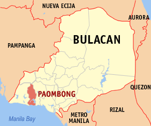 Map of Bulacan showing the location of Paombong